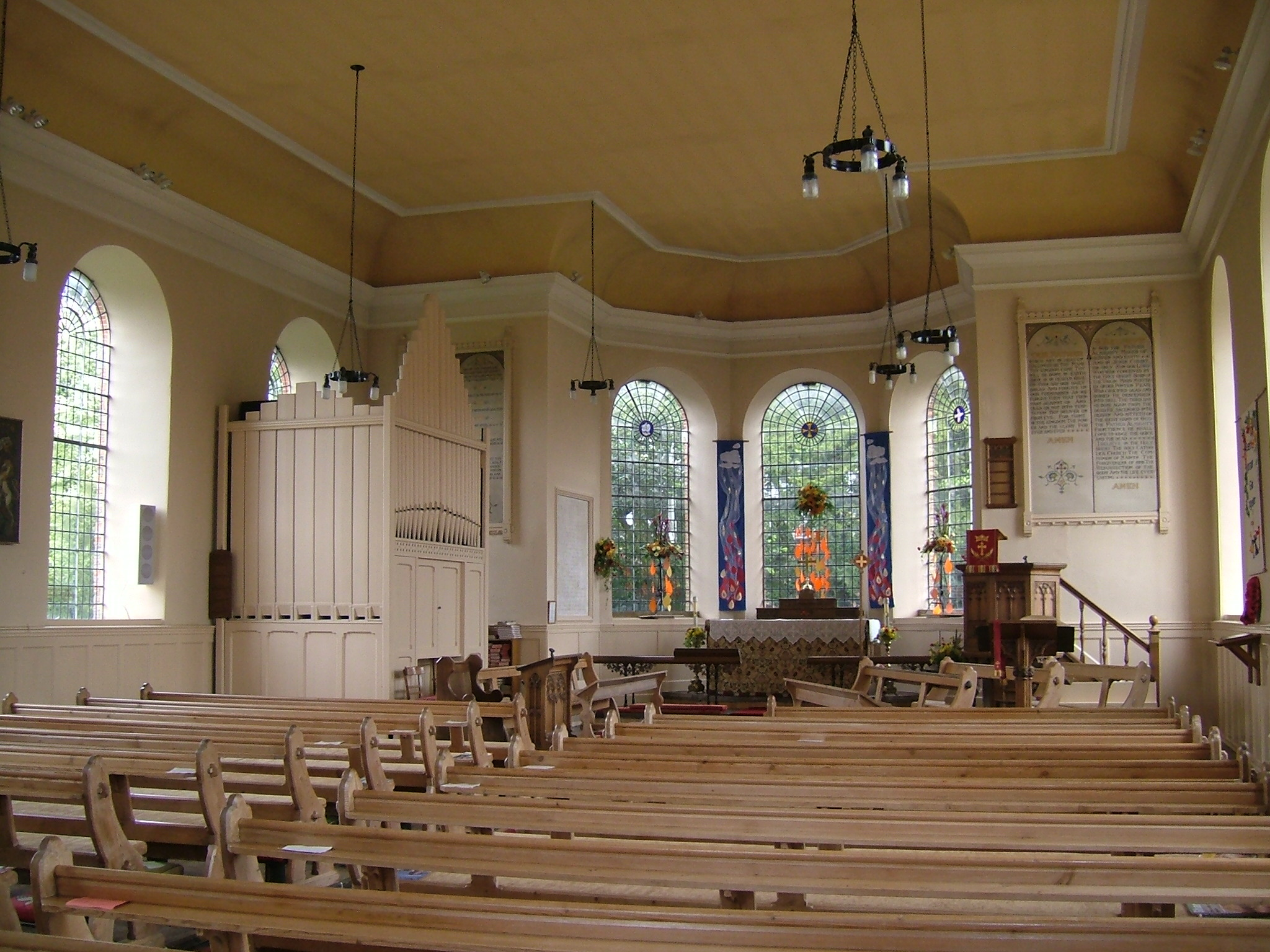 The interior of Wheldrake church. Taken by James@hopgrove, May 2005.